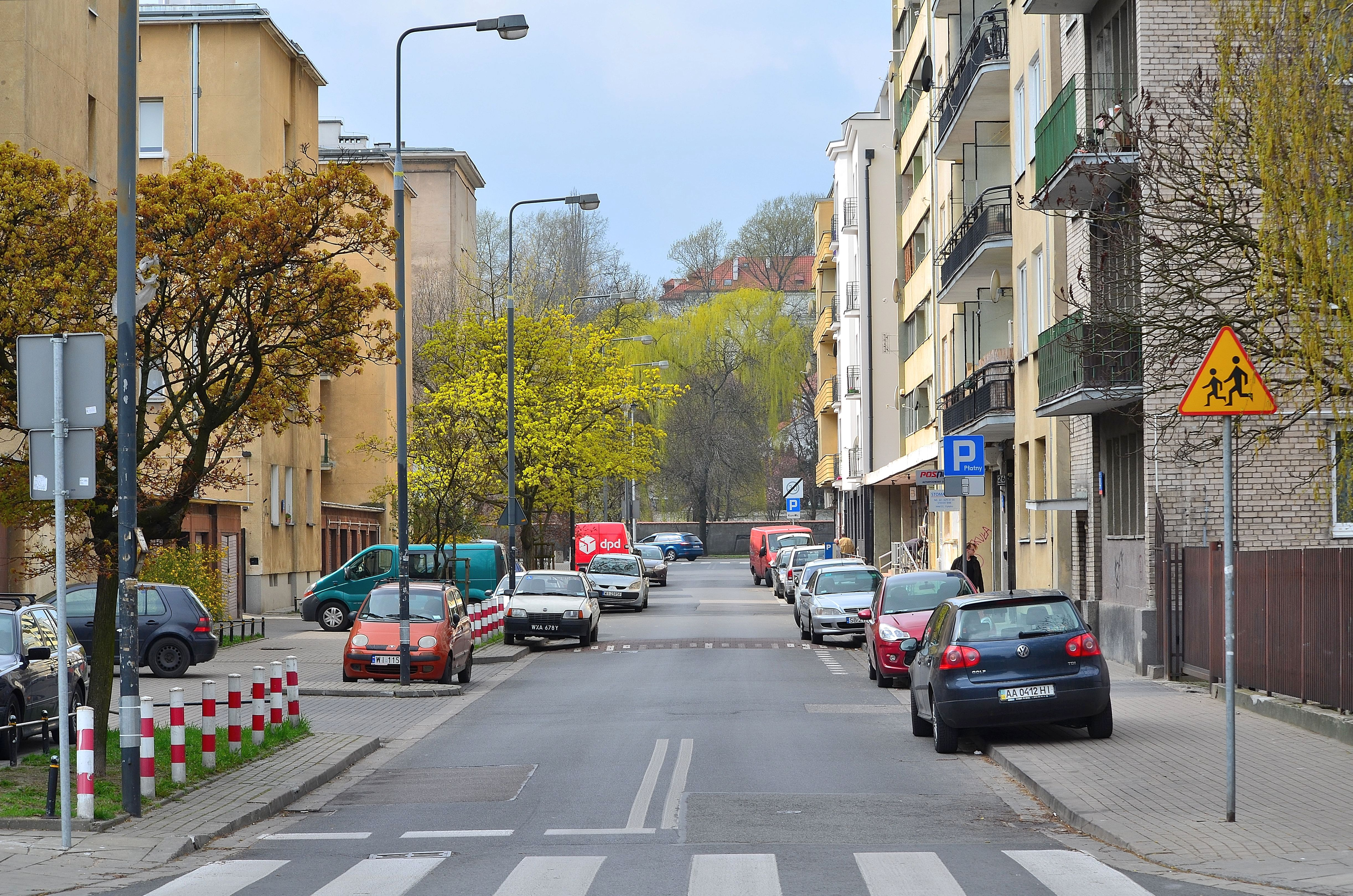 Fabryczma Street in Warsaw, view from Koźmińska towards Rozbrat Street